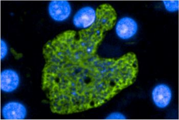 A liver stage parasite of Plasmodium cynomolgi infecting primary rhesus hepatocytes. 11 days after infection, cells were fixed and stained for a parasite-specific protein called Hsp70 (shown in green) as well as with the DNA dye DAPI (stains both host nuclei which appear as blue circles, and parasite nuclei). The image is approximately 100 micrometers across.